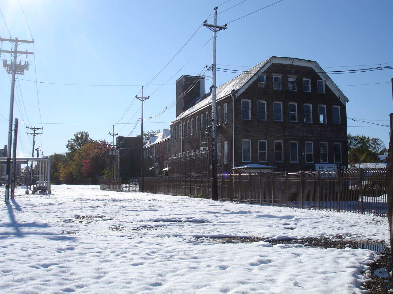 I took this photo of the National Musical String Company myself on October 30, 2011.